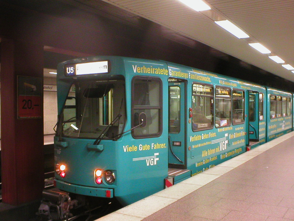 The U-Bahn-train type Ptb at the station Hauptbahnhof (Main station) in Frankfurt am Main, Germany